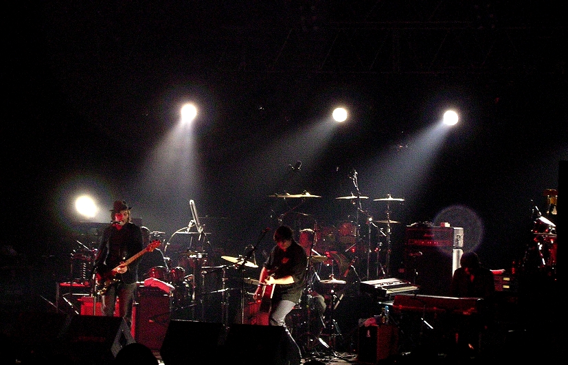 Supergrass in Madrid